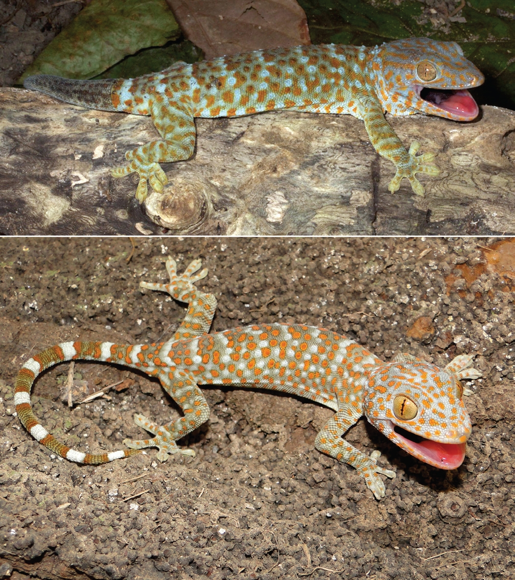 Tokay gecko (Gekko gecko). Adult male from Same, Manufahi District (USNM 573671, SVL 142 mm, TL 236 mm; top) and juvenile G. gecko from Wailakurini, Viqueque District (USNM 573673, SVL 88 mm, TL 168 mm; bottom). Note the brownish, regenerated tail on the adult (top). Photos by Mark O’Shea (top) and Hinrich Kaiser (bottom).